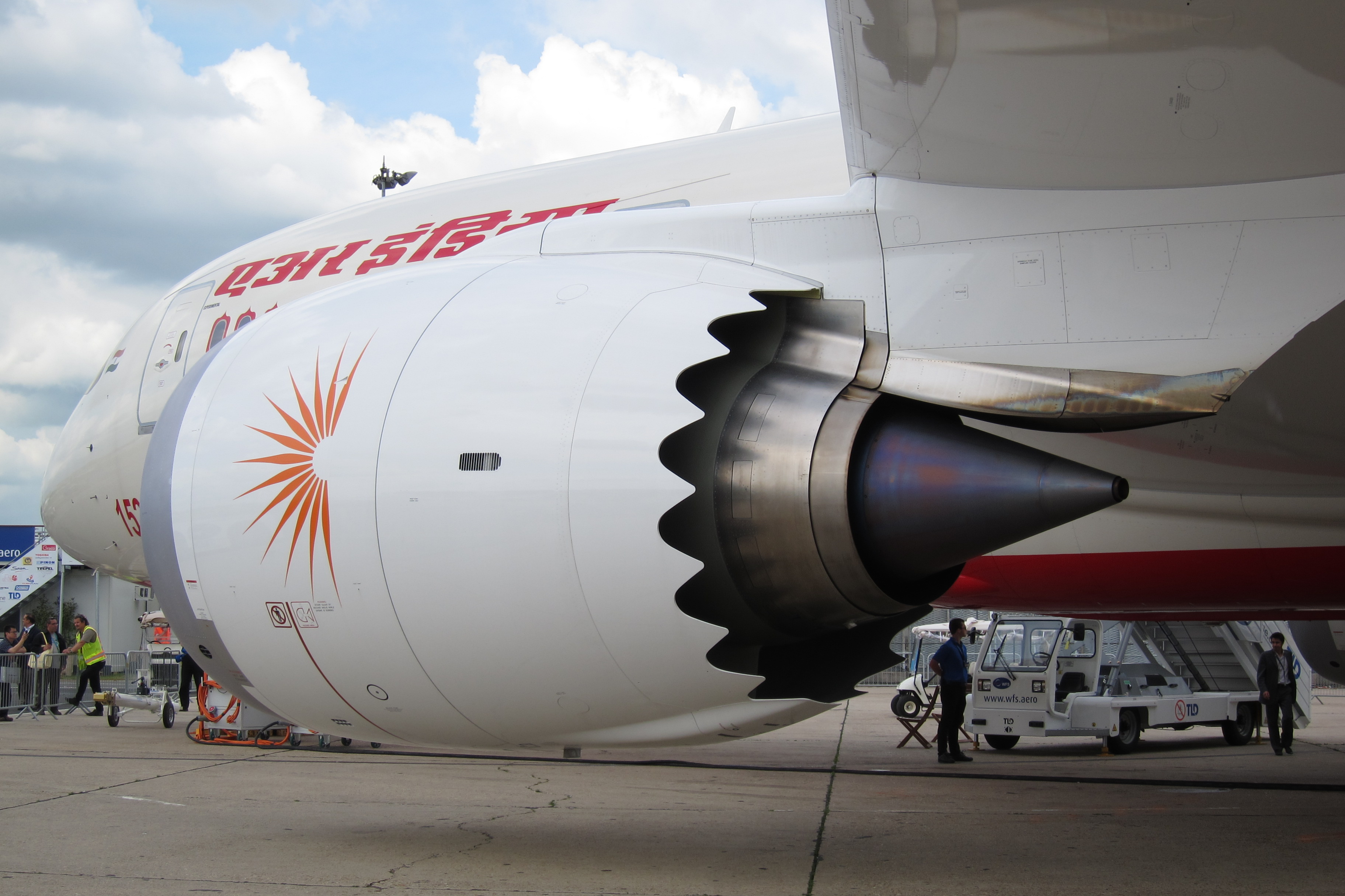 The left engine (A General Electric GEnx-1B) on an Air India Boeing 787